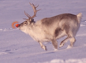 Rudolph has to hurry up, Christmas is coming soon. ;-)